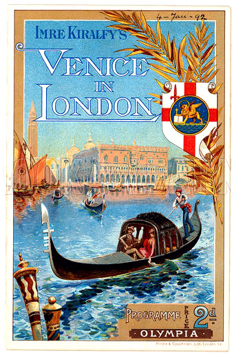 Venice in London programme 1892.